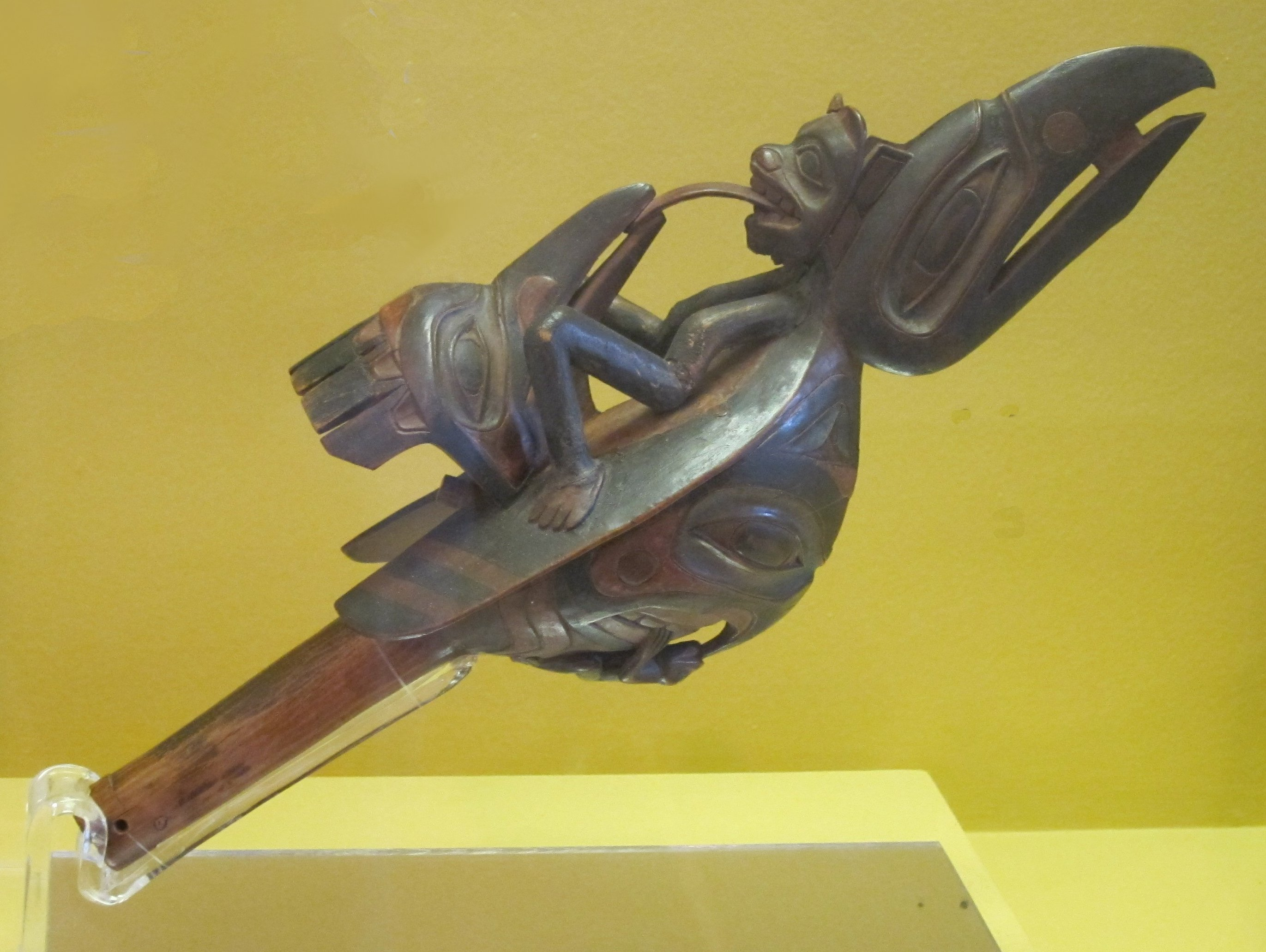 Raven Rattle, mid to late 19th century, Haida people, carved and painted wood, Honolulu Museum of Art, accession 384.1